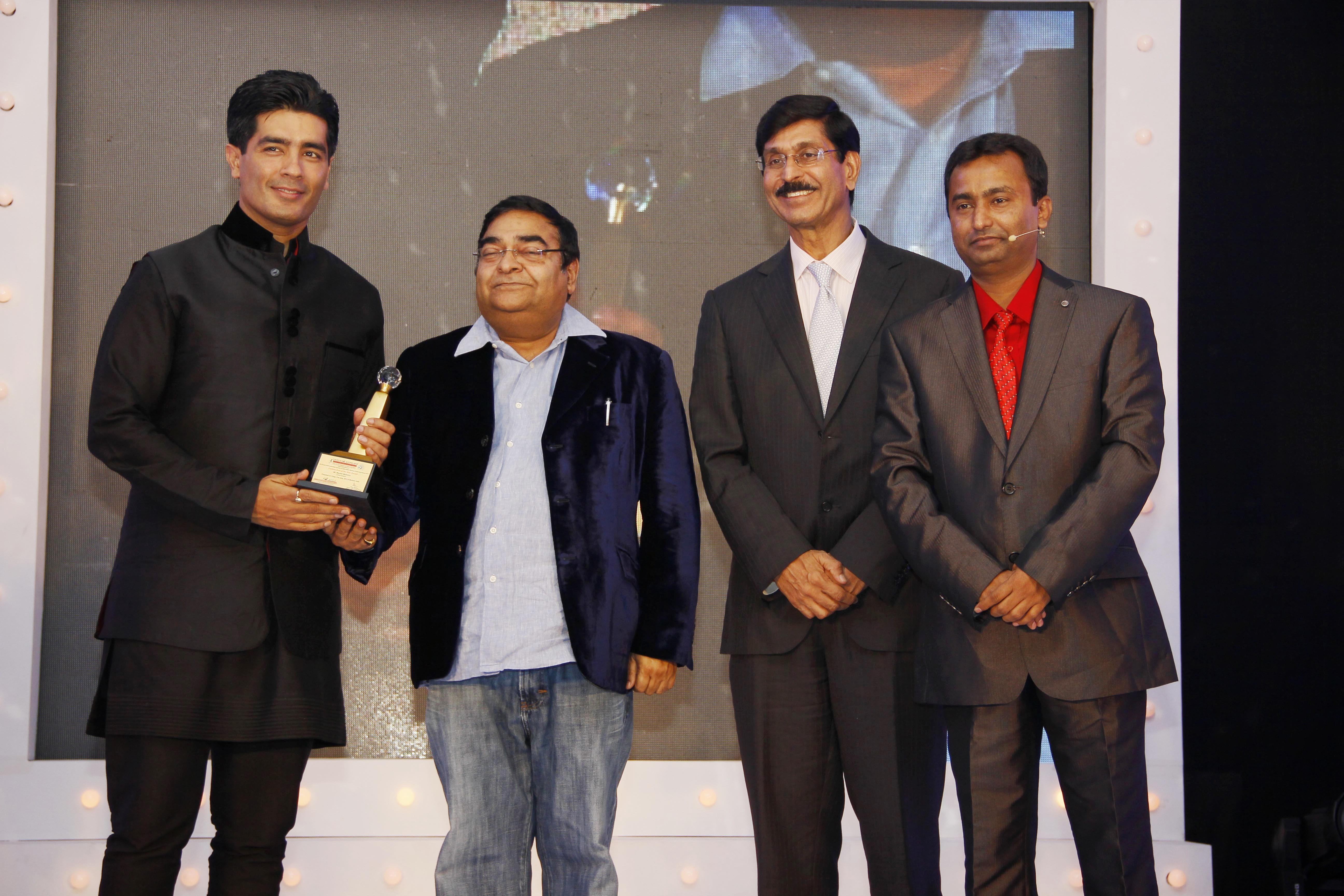 India Leadership Conclave 2013 Annual celebration where top three achievers Dr. Mukesh Batra, Kewal Handa, Manish Malhotra, Satya Brahma are on the stage.